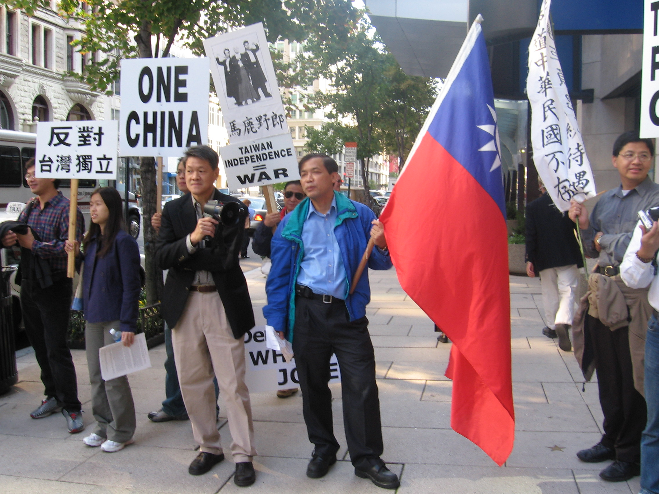 Anti-Taiwan independence protesters. Taken by RattleMan in Washington D.C. on October 20, 2005.